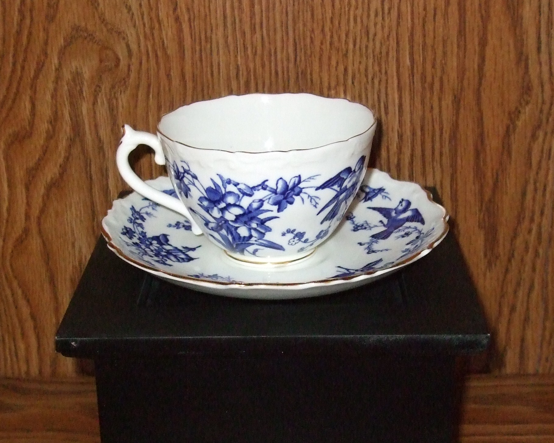 Coalport china tea cup and saucer. Coalport China is an English pottery which dates to 1750.